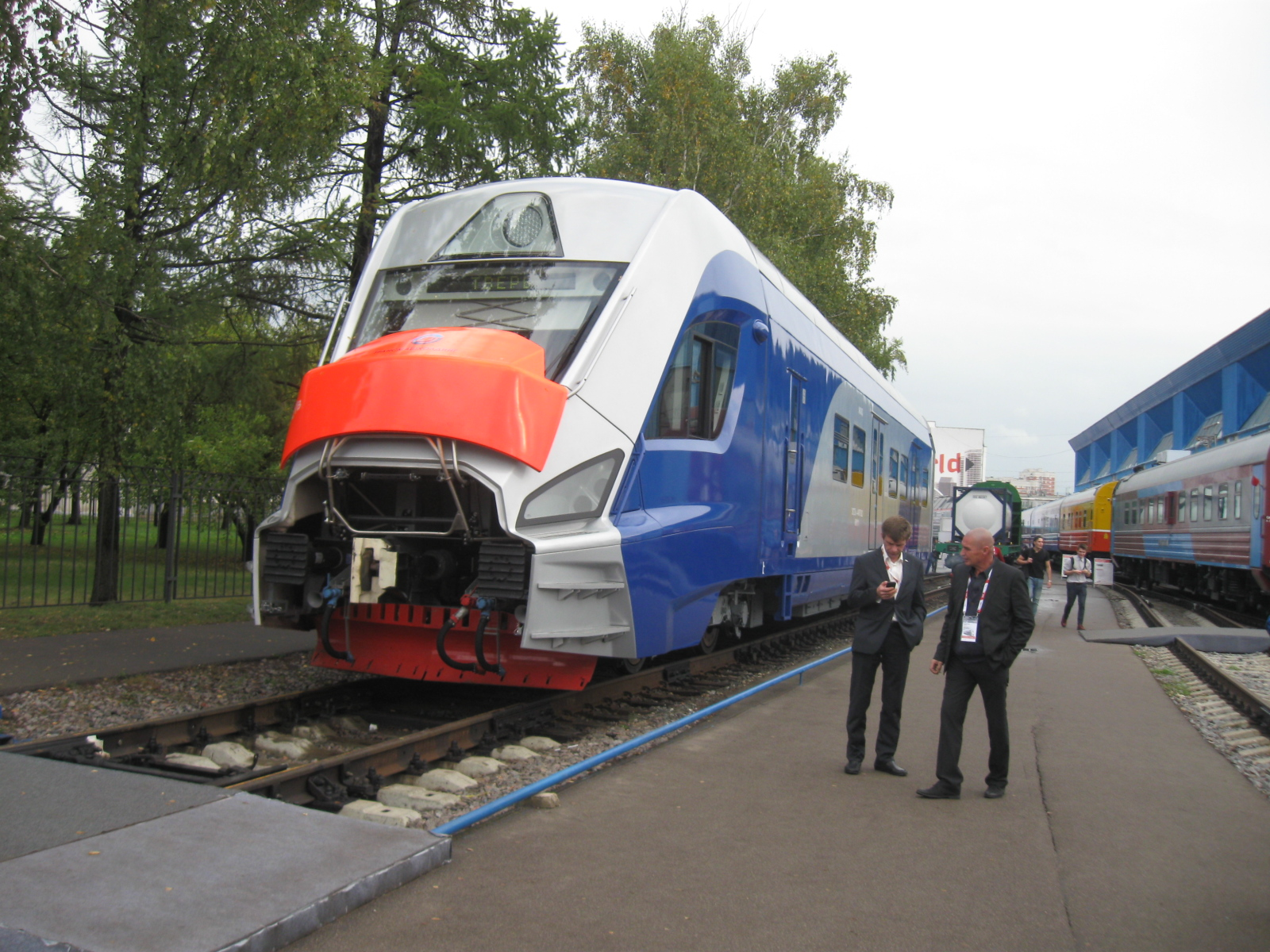 EG2Tv-001 EMU head car with open fairing of coupler